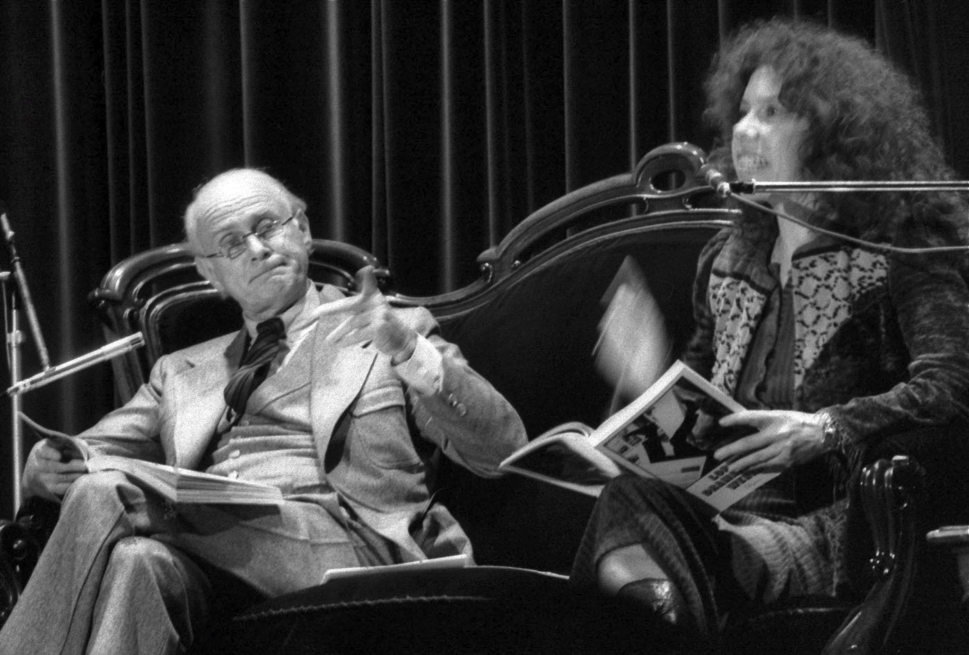 German humorist Vicco von Bülow (alias Loriot) and actress Evelyn Hamann in the early 1980s during a reading of Loriots dramatische Werke in Dortmund.